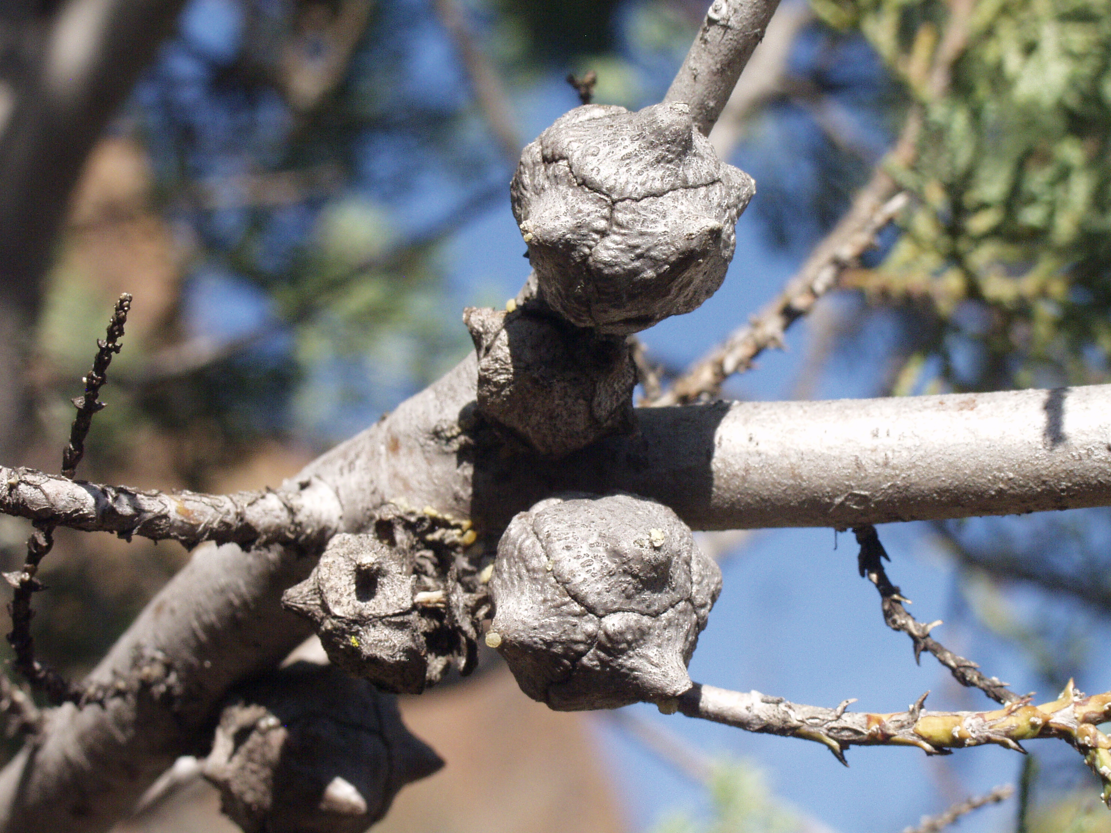 Cupressus macnabiana cones showing prominent "horns" (umbos) on the top bracts.